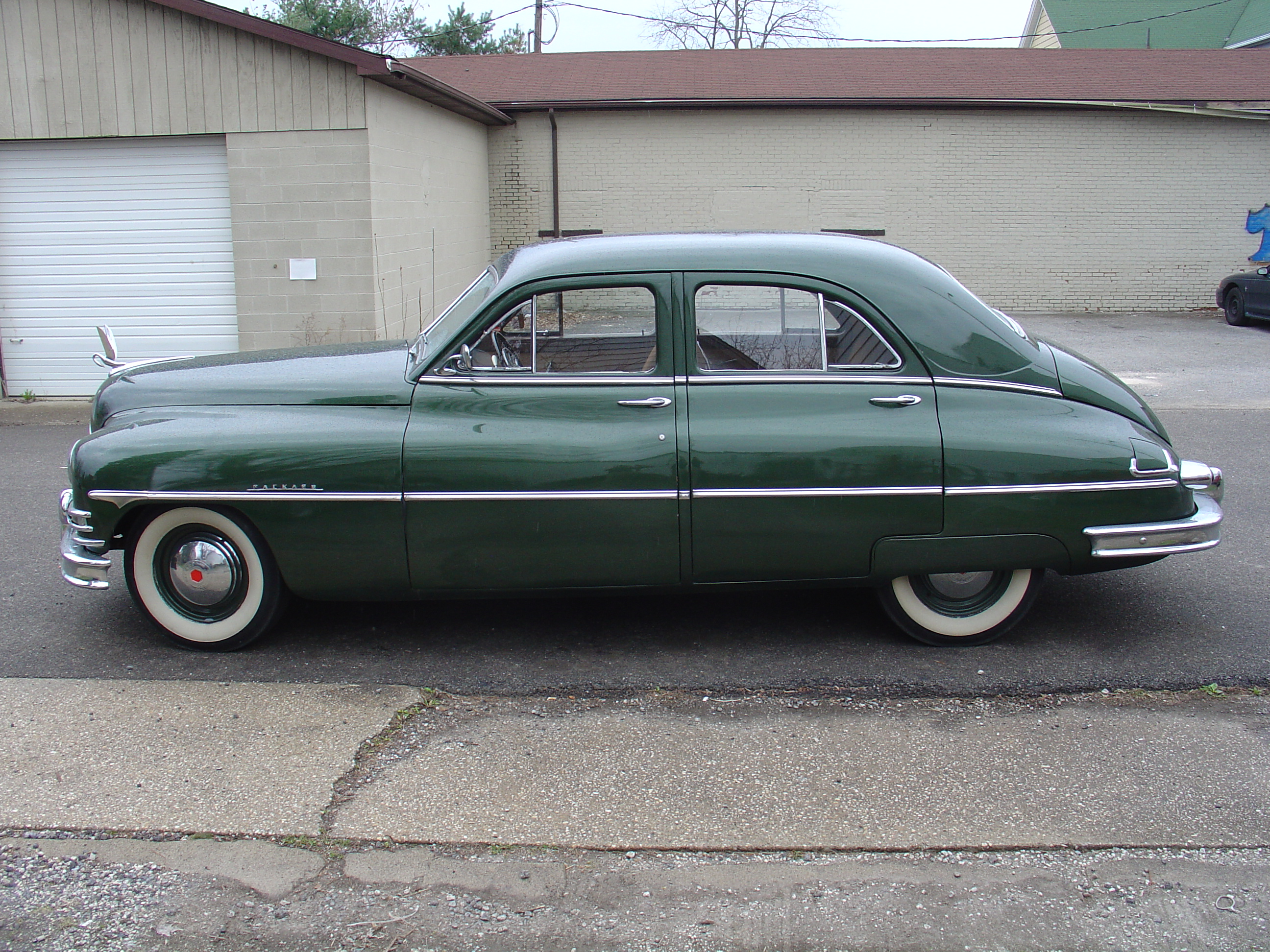 1950 Packard Eight Touring (4-Door) Sedan Model 2301 with Ultramatic Drive